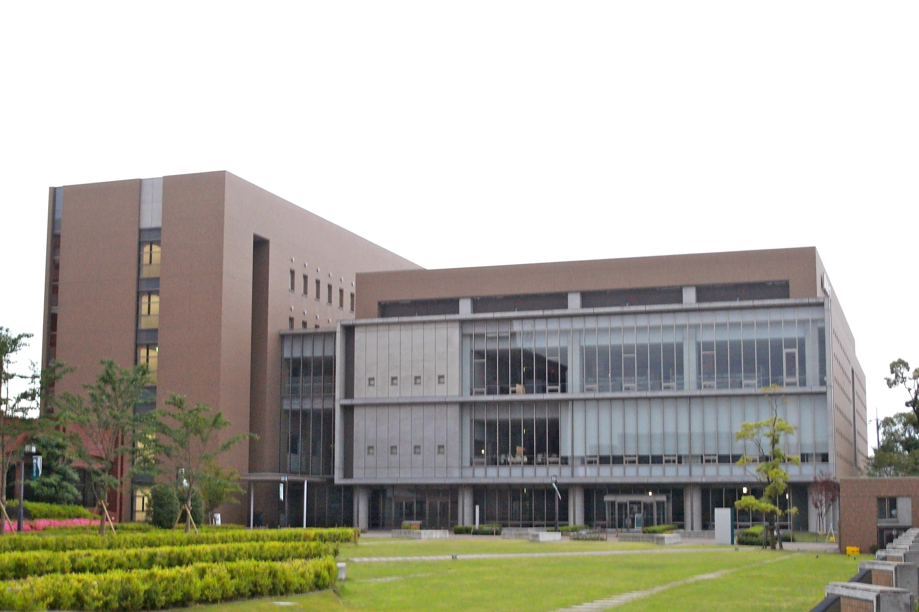 Hannan University in Matsubara-shi, Osaka pref., Japan.